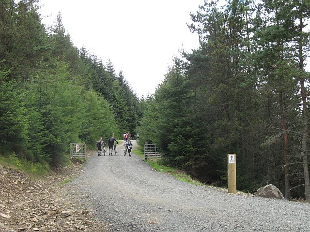 Top of the downhill runs, Plora Rig Mountain bike tourism has been a hugely successful industry in Tweeddale. In the 1980's there was much mindless hostility to the fat tyres, but in Southern Scotland some landowners encouraged this use of their forest land with a very positive outcome for the local economy. Things have moved on, the sport has evolved and diversified, and this hill has been developed for adventurous downhill descents on specialist bikes by heavily armoured and fearless riders. The road has been improved to allow mechanical uplift (lorry and coach) of bikes not designed for easy climbing, they have evolved into a tool for going down hill over rough ground - fast! Plans are advanced for a chair lift to service Plora Rig's downhill routes.